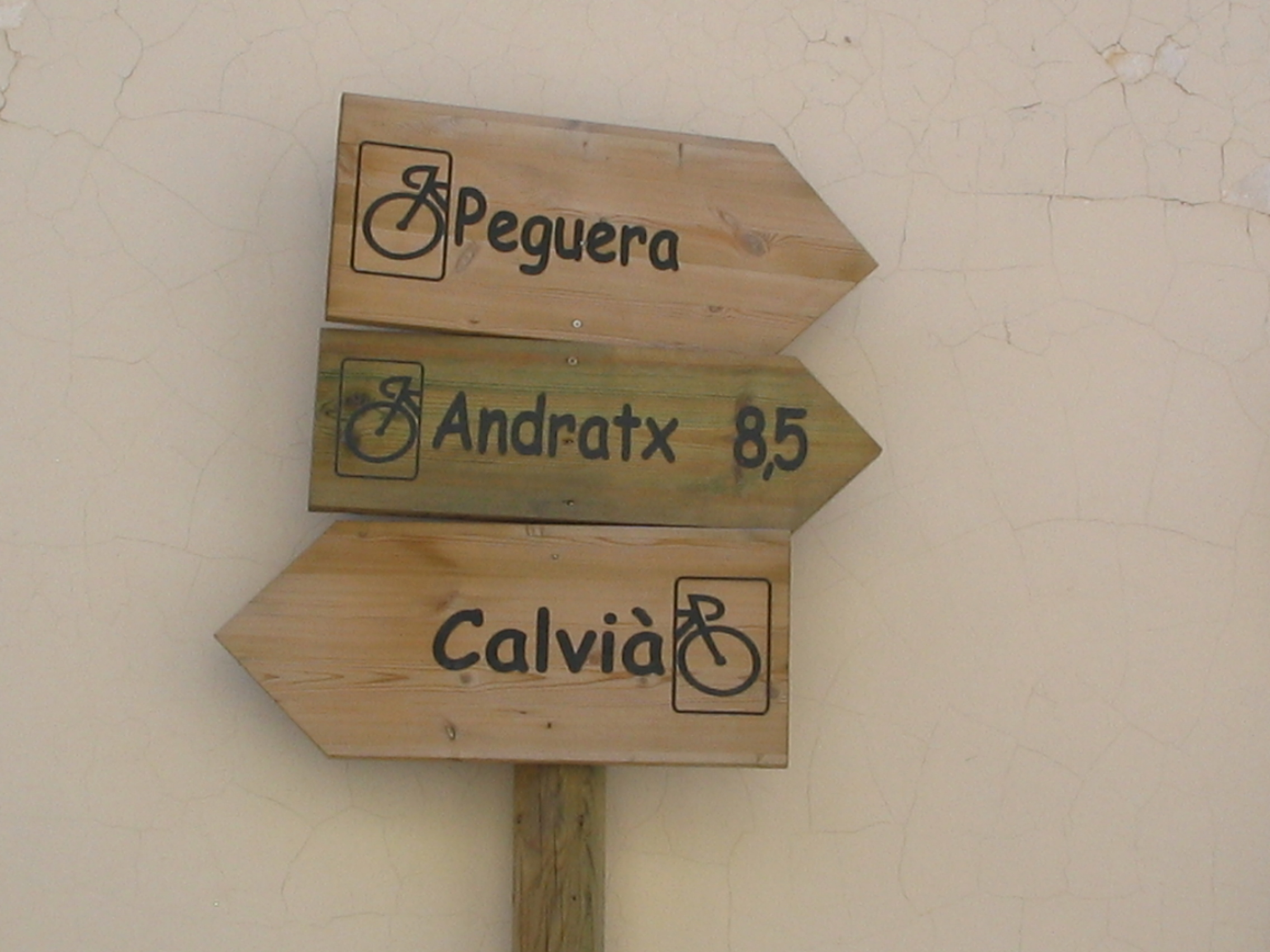 A wooden sign pointing to majorcan villages in Spain.